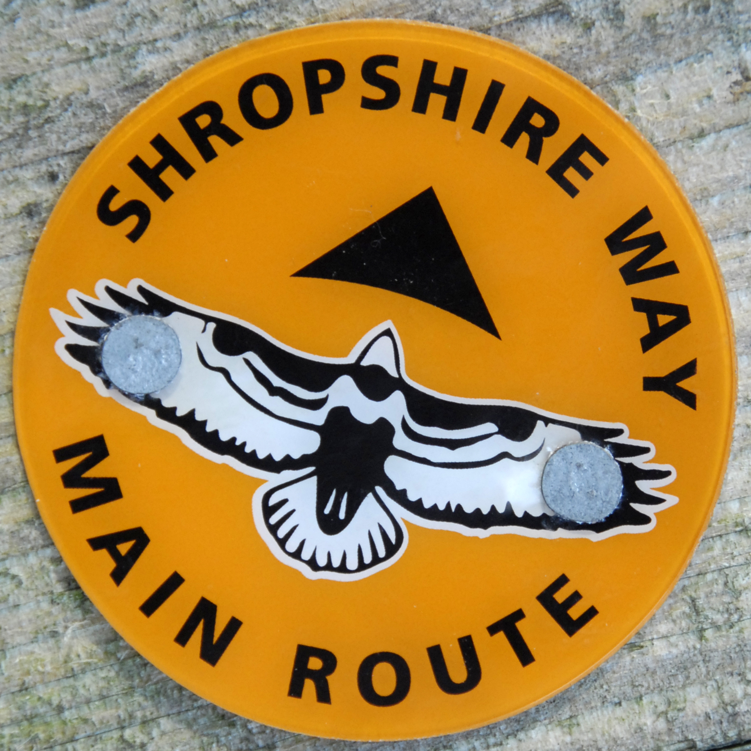 Shropshire Way sign on The Wrekin